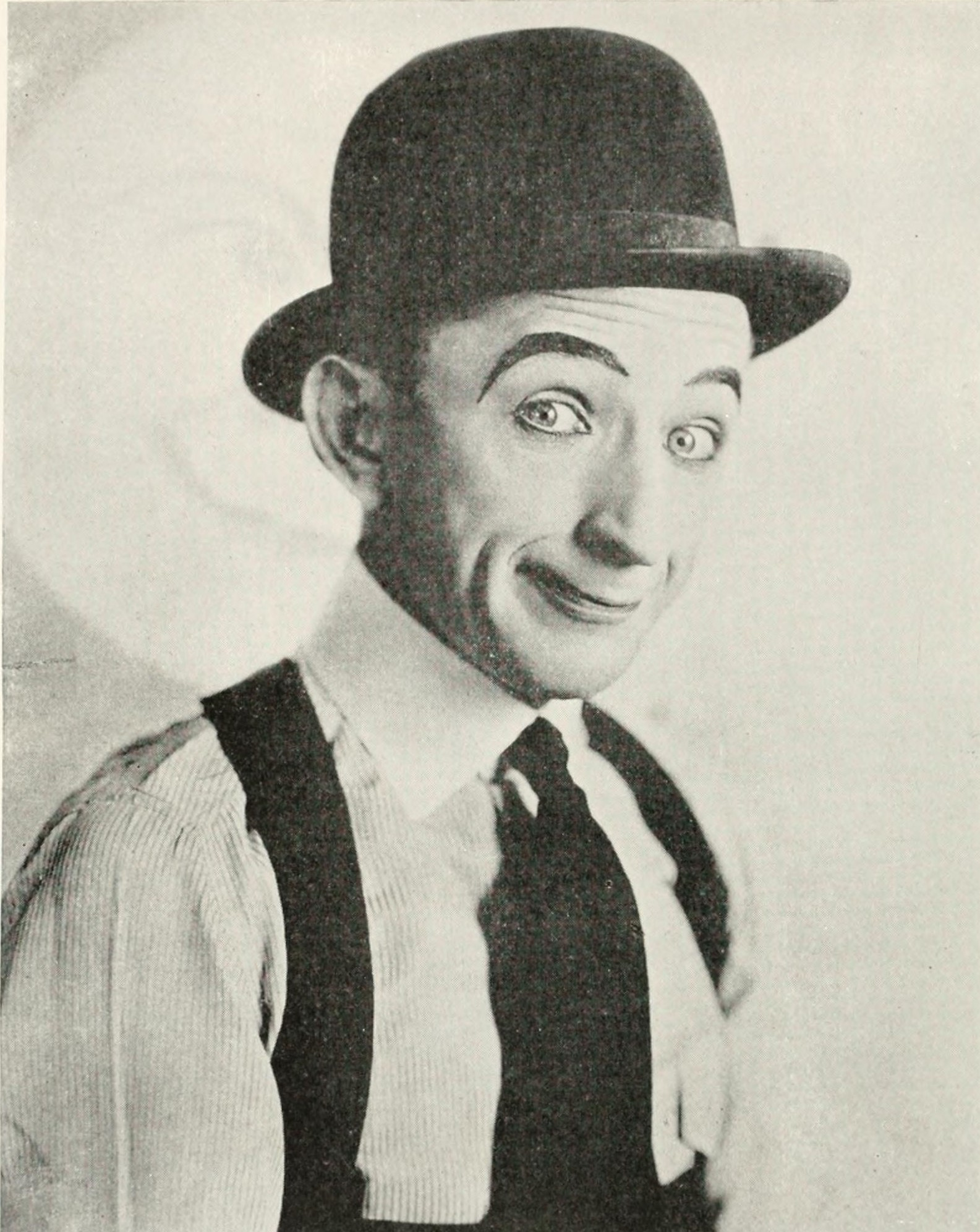 Larry Semon in Who's Who on the Screen, 1920.